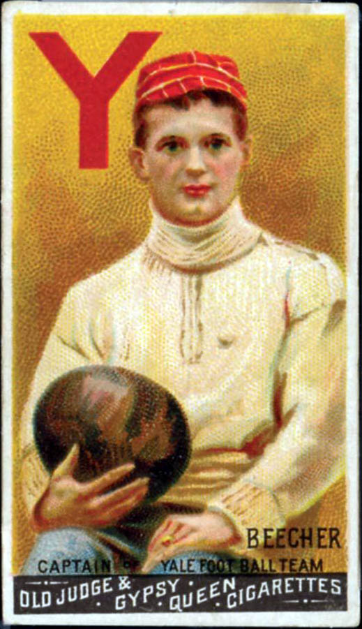 Harry Beecher, Yale quarterback, on a football trading card by Old Judge & Gypsy Queen Cigarettes.